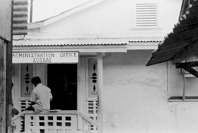 TTPI(Trust Territory of the Pacific Islands) Kosrae District Administration Office